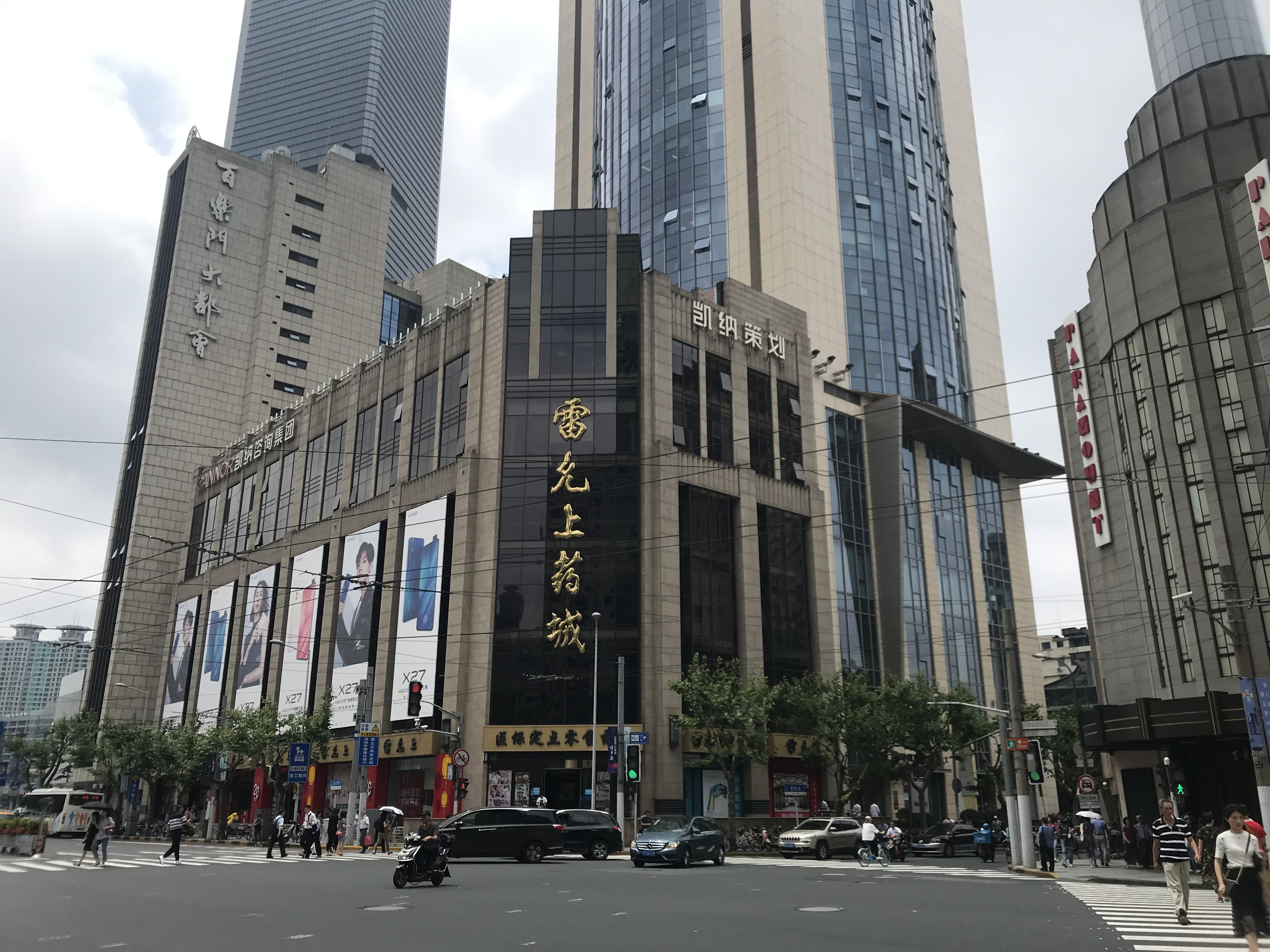 201907 Lei Yun Shang near Jing'an Temple